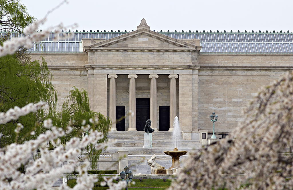 The main entrance of the 1916 wing of the Cleveland Museum of Art